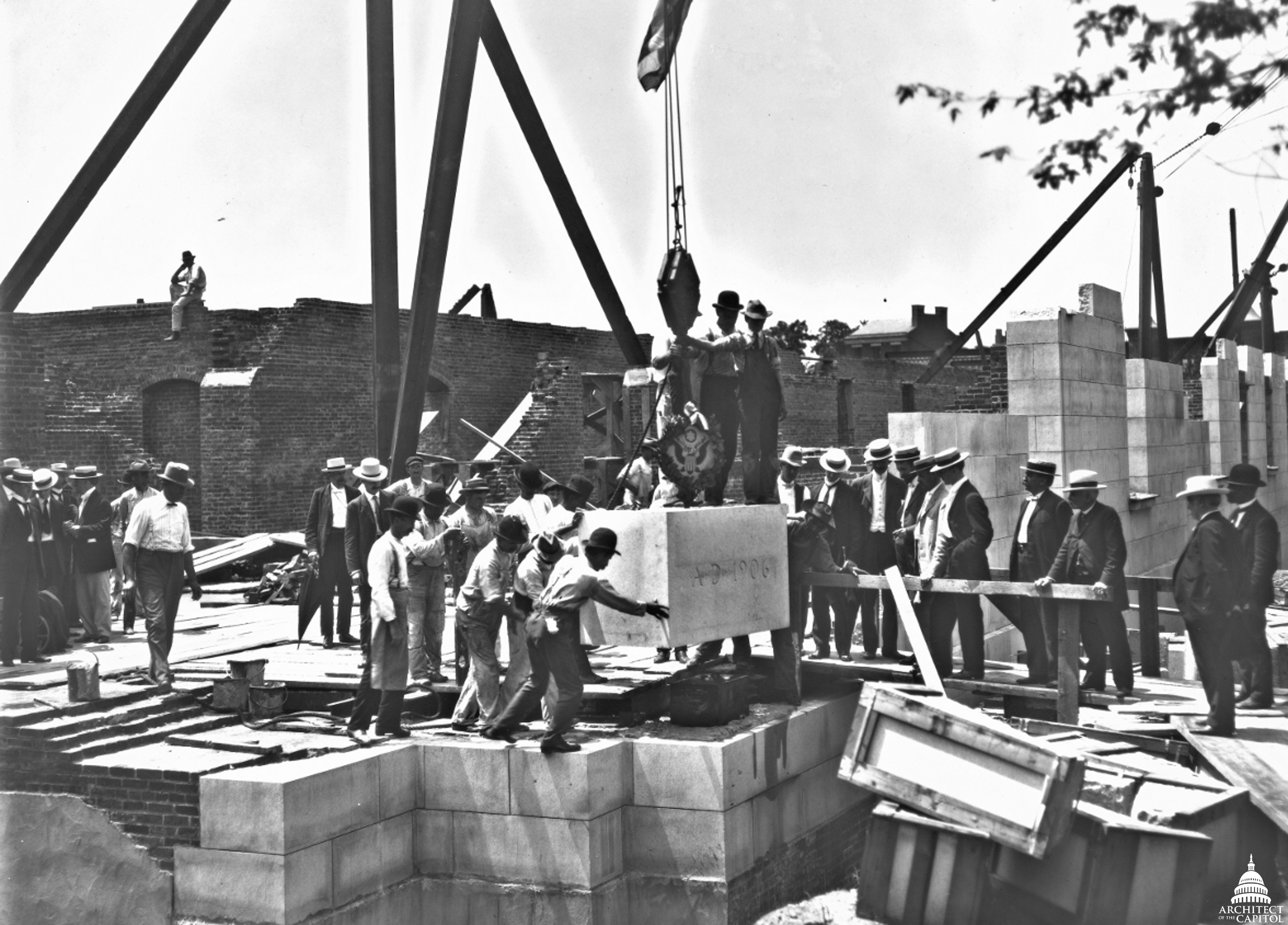 Laying cornerstone of the Russell Senate Office Building July 31, 1906.